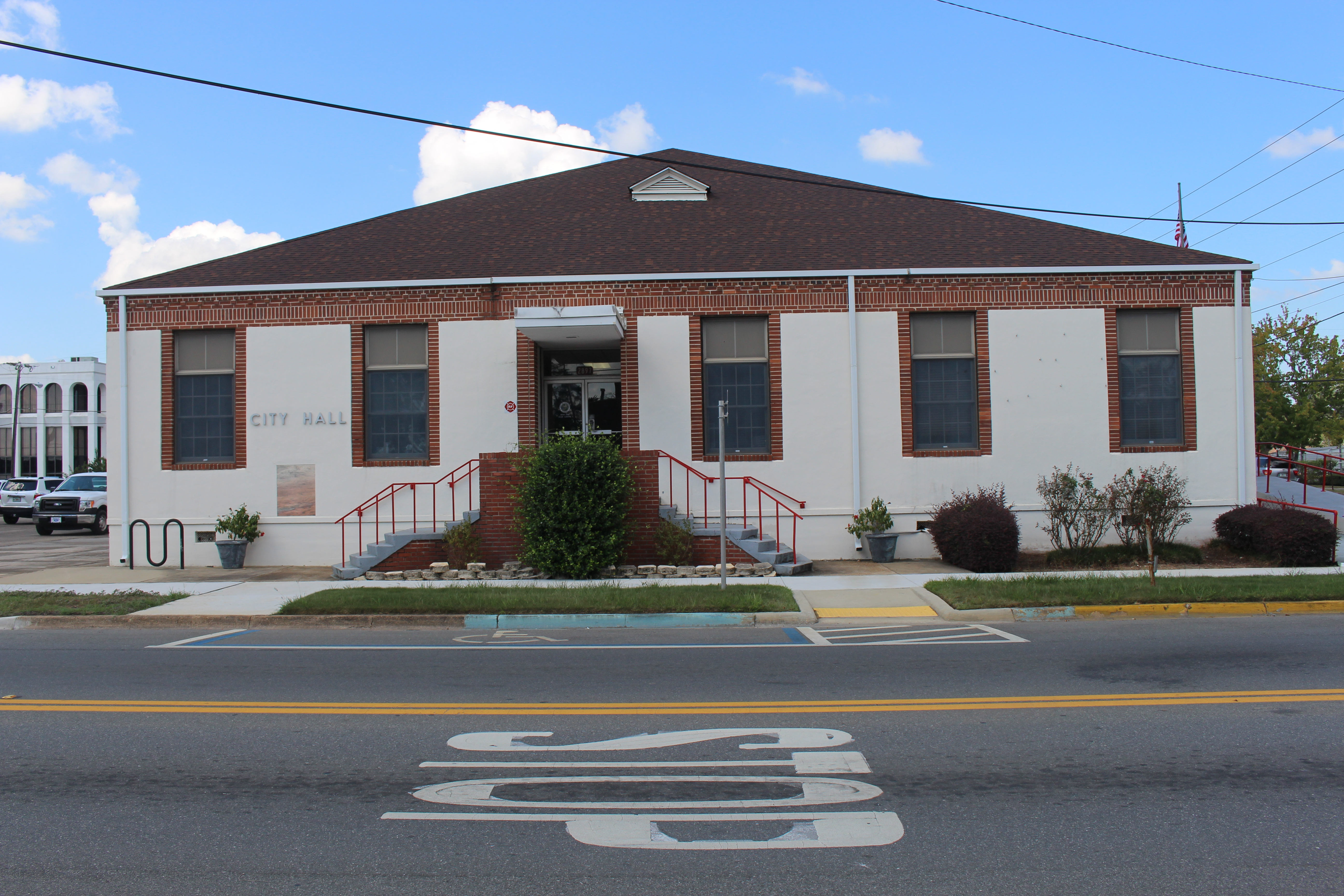 Marianna City Hall, Marianna Historic District, Marianna, Jackson County, Florida